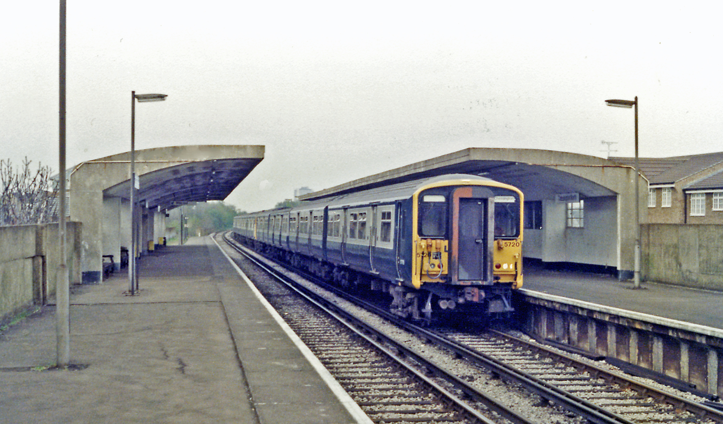 Chessington North station, with train, 1985. View NE, towards Motspur Park, Raynes Park and Waterloo: SR 1939 Chessington branch from Motspur Park on the Waterloo - Epsom - Dorking etc. line. The EMU is one of then newly introduced Class 455 units with [sliding] doors.Note the distinctive art deco canopies that were standard along this line.